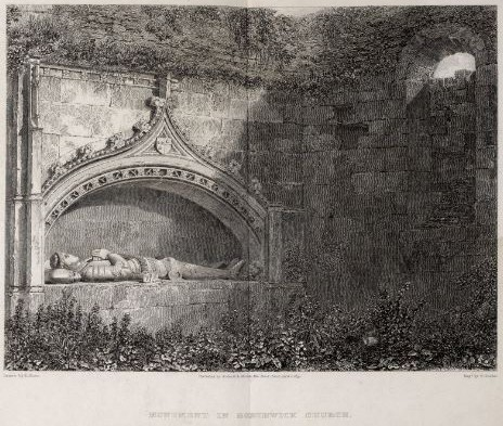 Engraving of the interior of Borthwick Church, with an effigy of a man in armour in an arched niche, showing a coat of arms. Titled "Monument in Borthwick Church". Drawn by Edward Blore. Published by Rodwell & Martin, New Bond Street, 2 April 1819. Engraved. by George Cooke. The effigy is said to be that of the first Lord Borthwick and dates from the 1400s.'